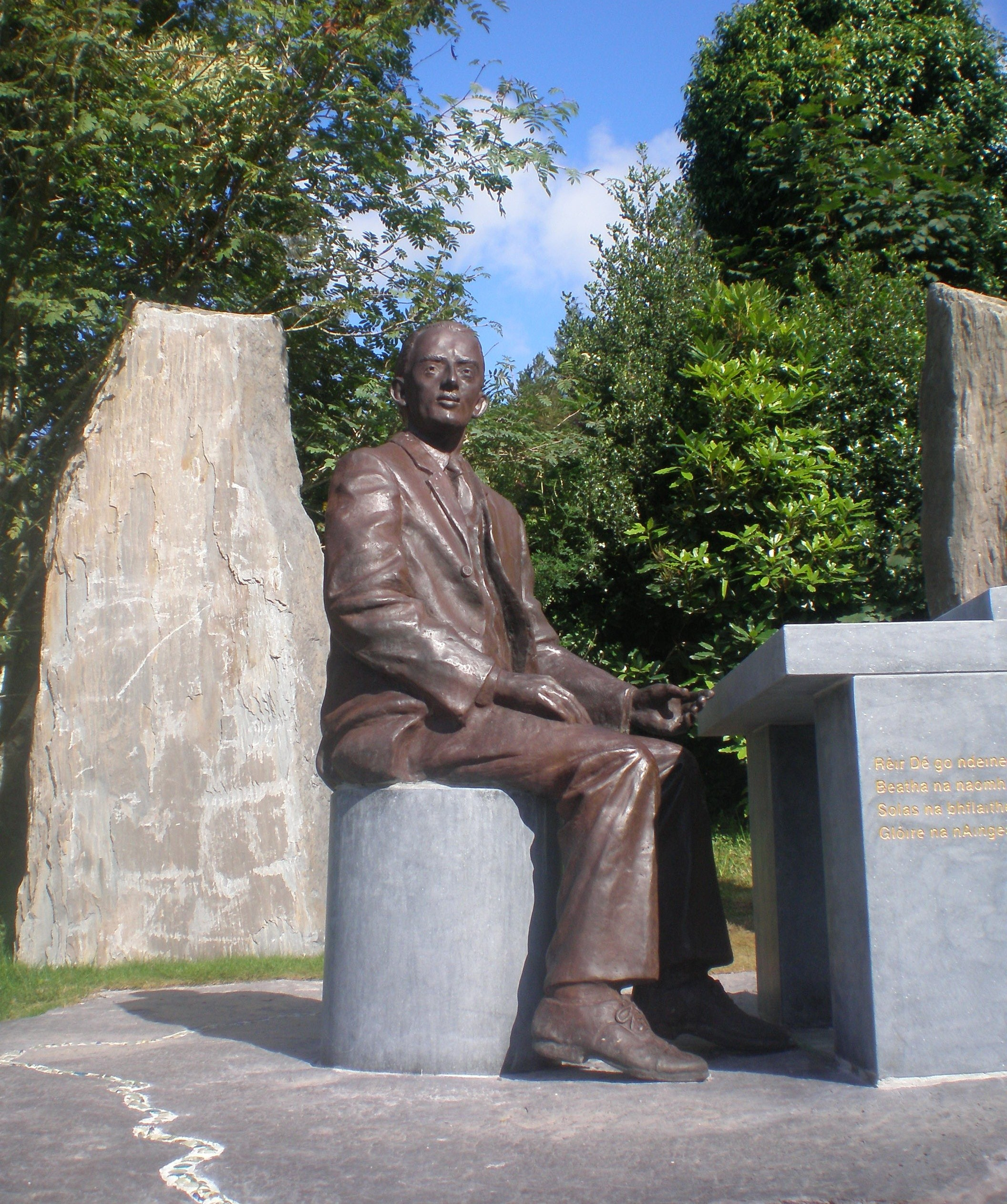 a sculpture of the composer Seán Ó Riad in Cúil Aodha